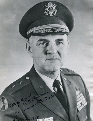 Major General Robert G. Fergusson Official autograph card during his time in Berlin